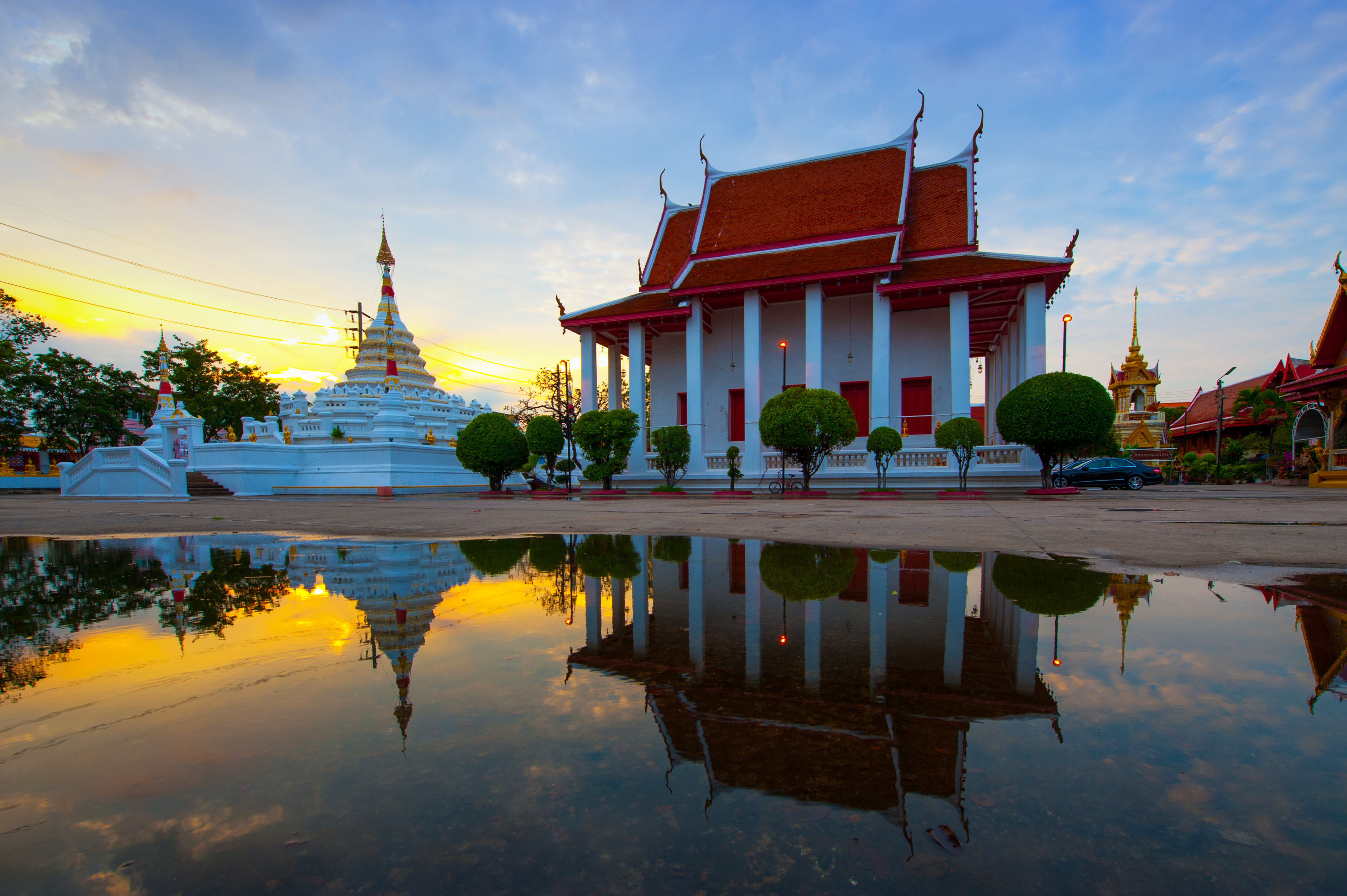 The Mon-styled chedi and the vihara of Wat Song Tham Worawihan, Phra Pradaeng District, Samut Prakan Province